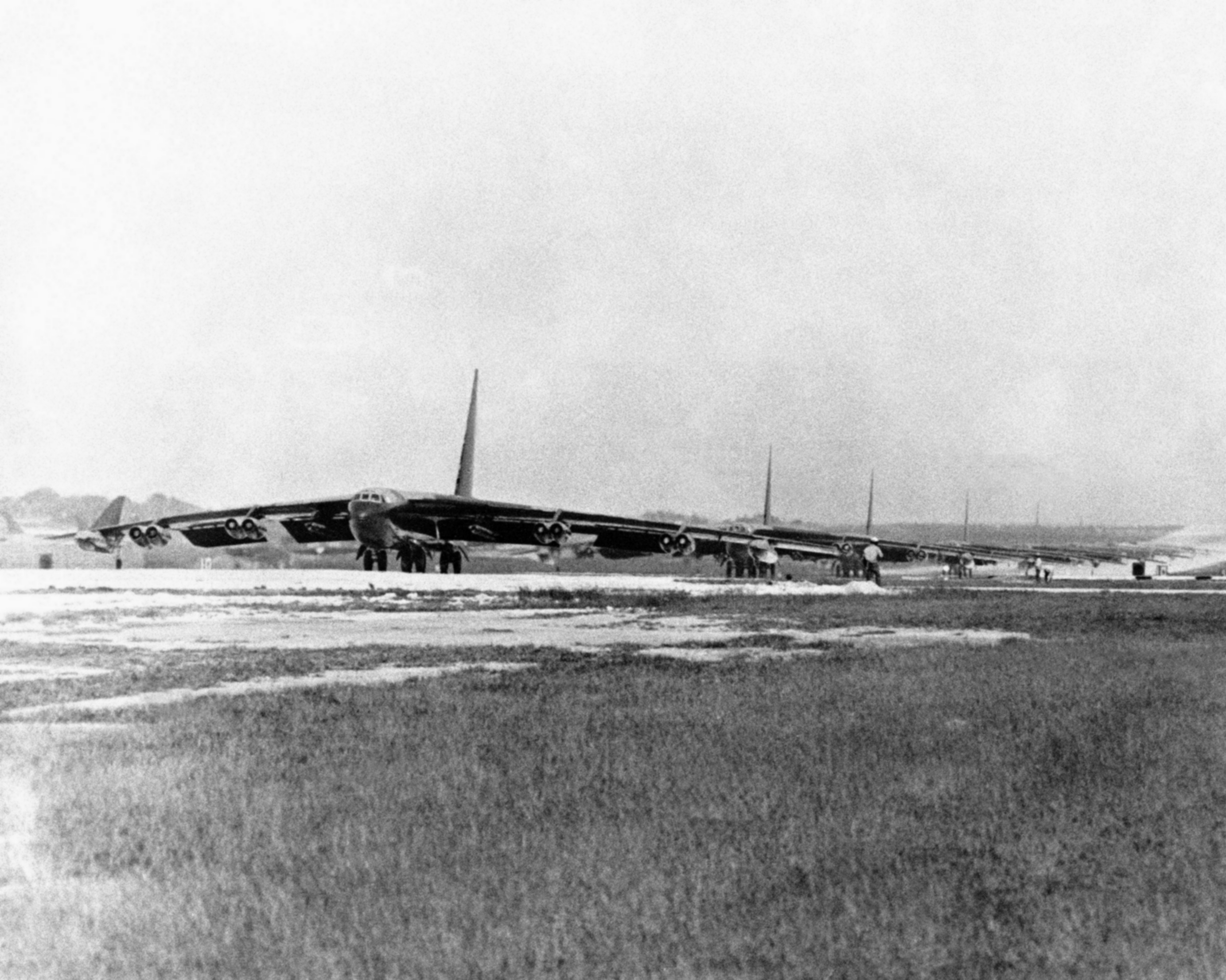 A U.S. Air Force Boeing B-52D Stratofortress bombers from the 43rd Strategic Wing await take-off at Andersen Air Force Base, Guam (USA), before a bombing mission over North Vietnam during Operation Linebacker II on 15 December 1972.